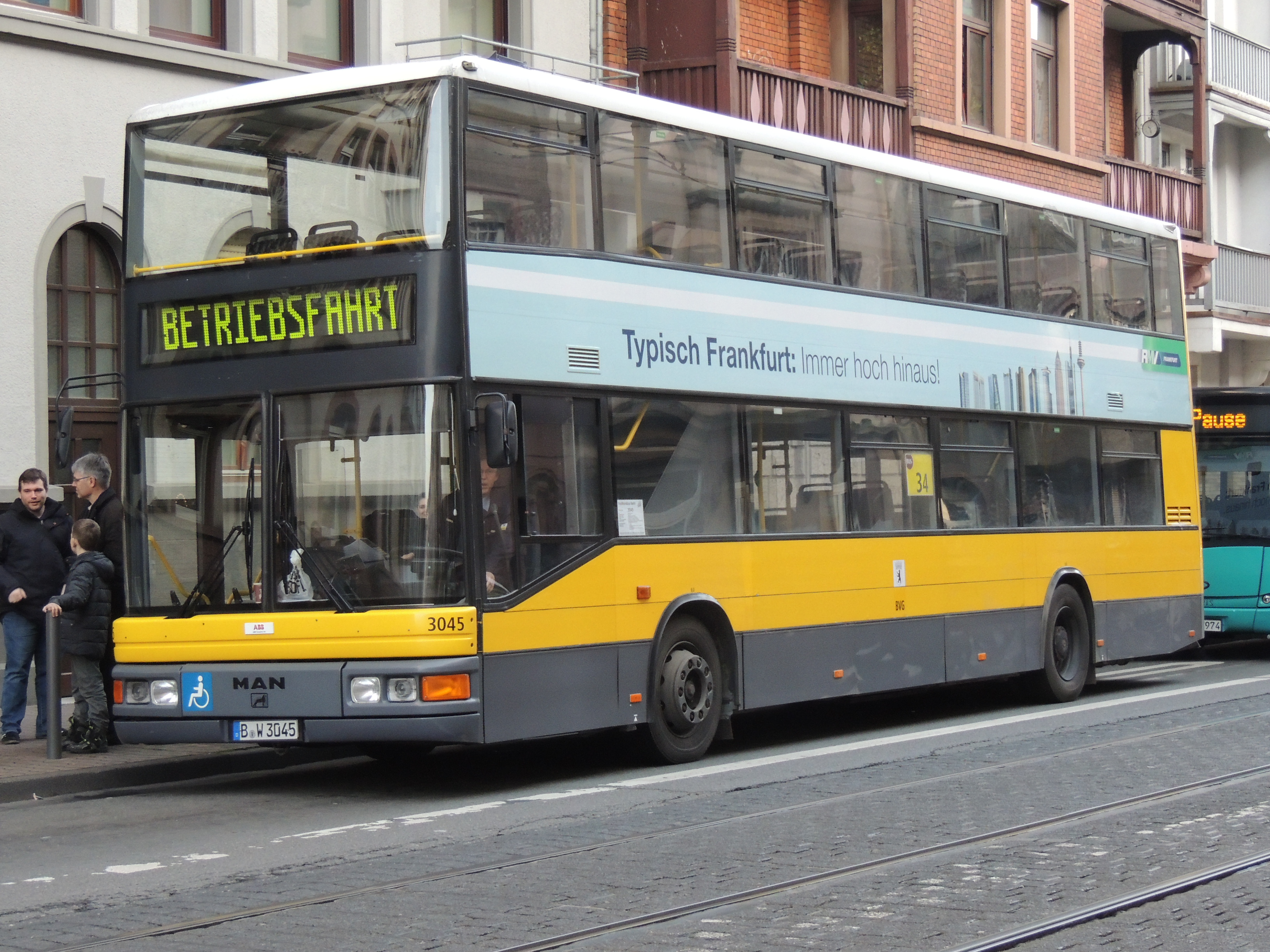 MAN ND 202 on in a test use lasting for several days in the Saalburgallee (stop Bornheim Mitte) in Frankfurt am Main-Bornheim, December 19th, 2015